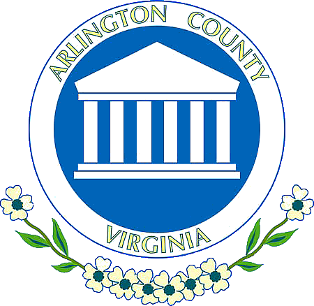 The former county seal of Arlington County, Virginia, used from June 6, 1983 to May 8, 2007.